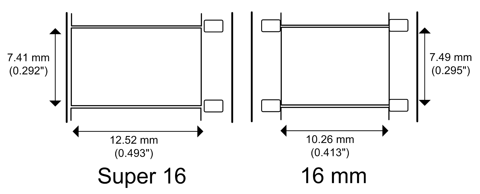 Super 16 and 16 mm film formats side by side.